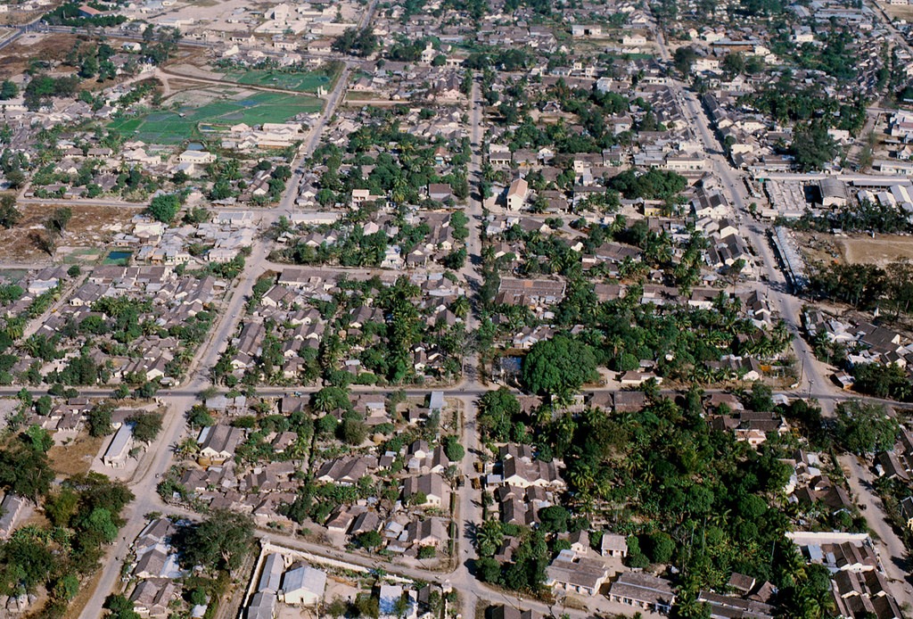 Kon Tum City in 1972